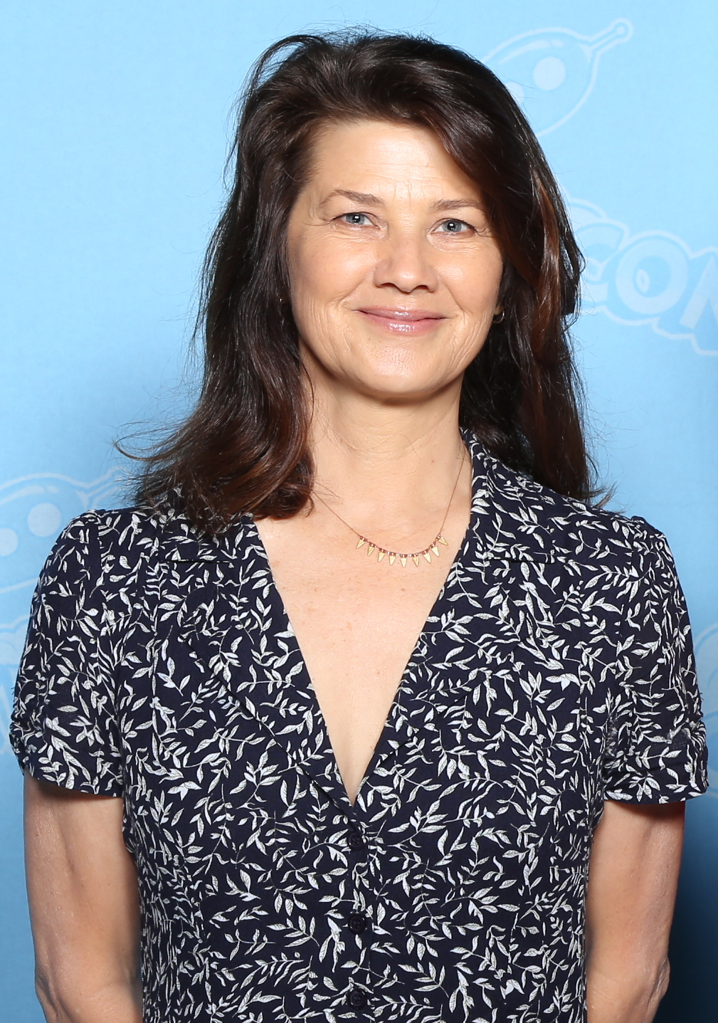 Daphne Zuniga at GalaxyCon Raleigh in 2019